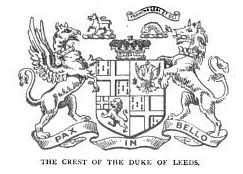 Coat of arms of the Duke of Leeds